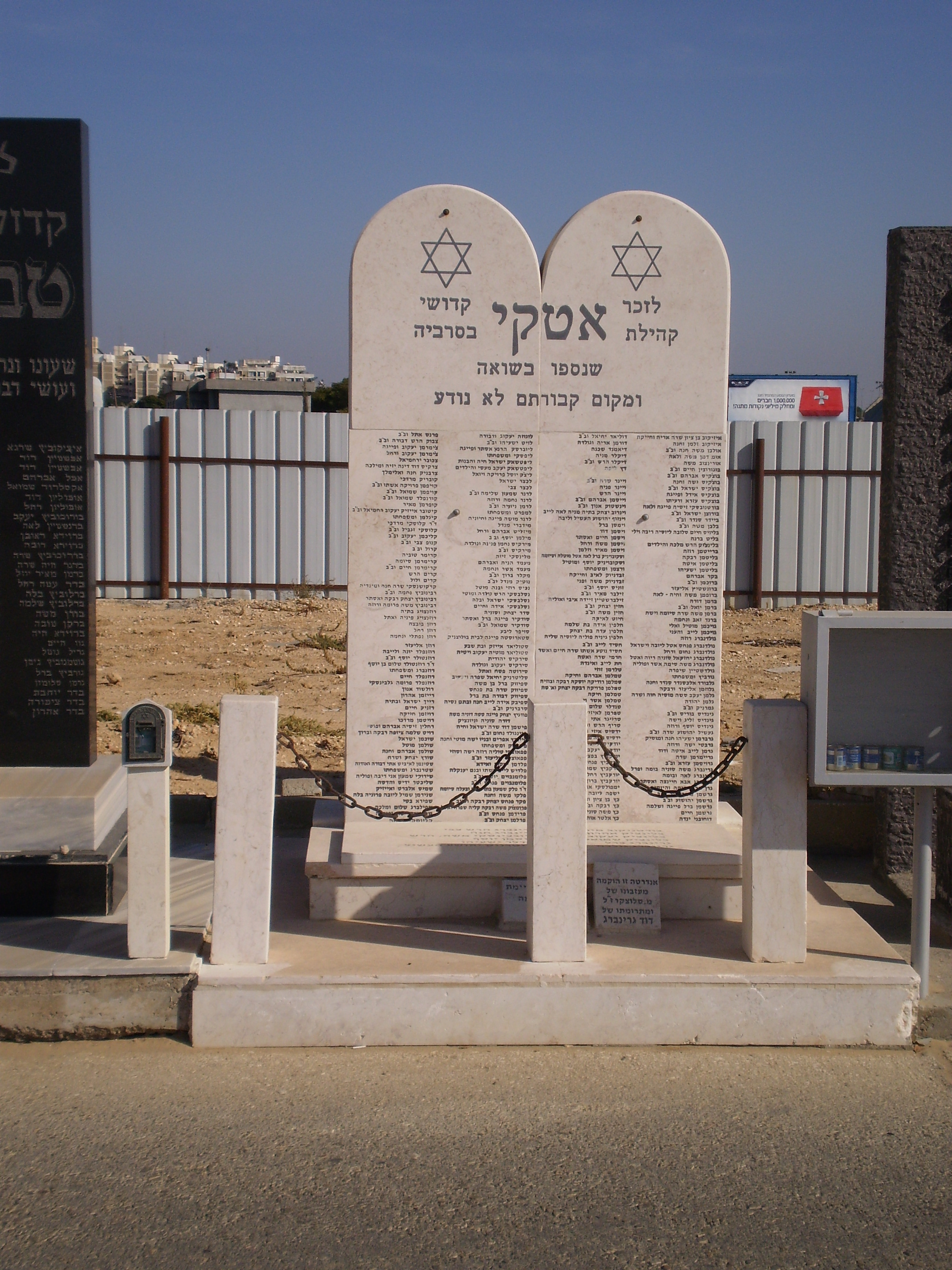 Ataki Jewery Holocaust memorial at Holon Cemetery